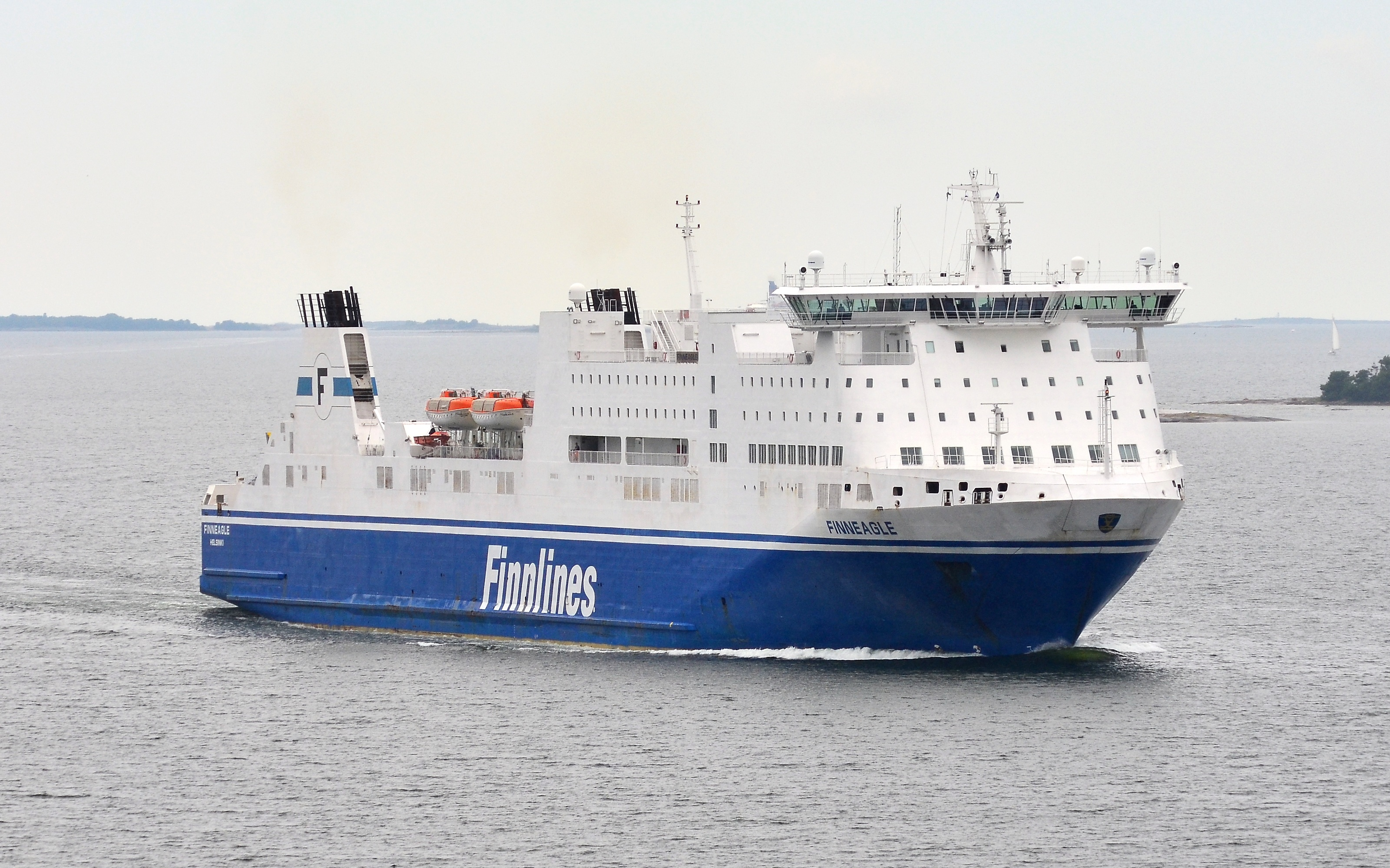 The RO-RO ship Finneagle near Föglö, Åland islands.